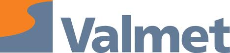 Valmetlogo